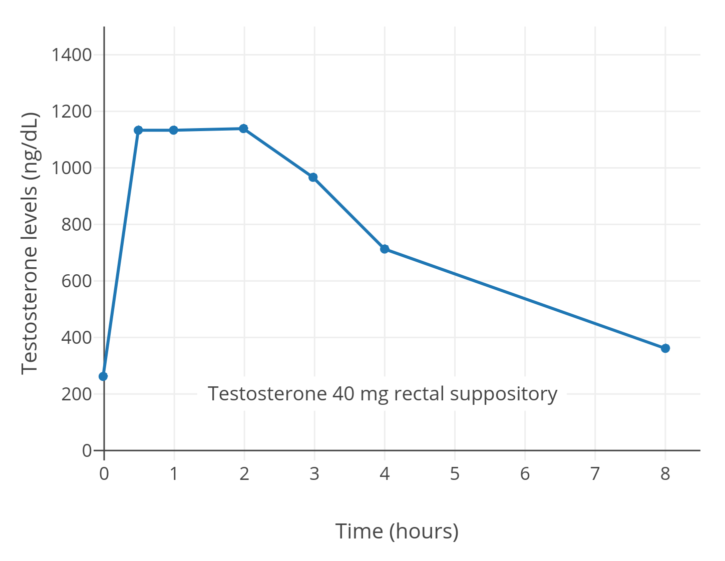 Levels of testosterone (ng/dL) after single-dose rectal administration of a 40 mg testosterone suppository in hypogonadal men. Source of the values: December 2012 Treatment of Male Infertility, Springer Science & Business Media, pp. 178– ISBN: 978-3-642-68223-0.